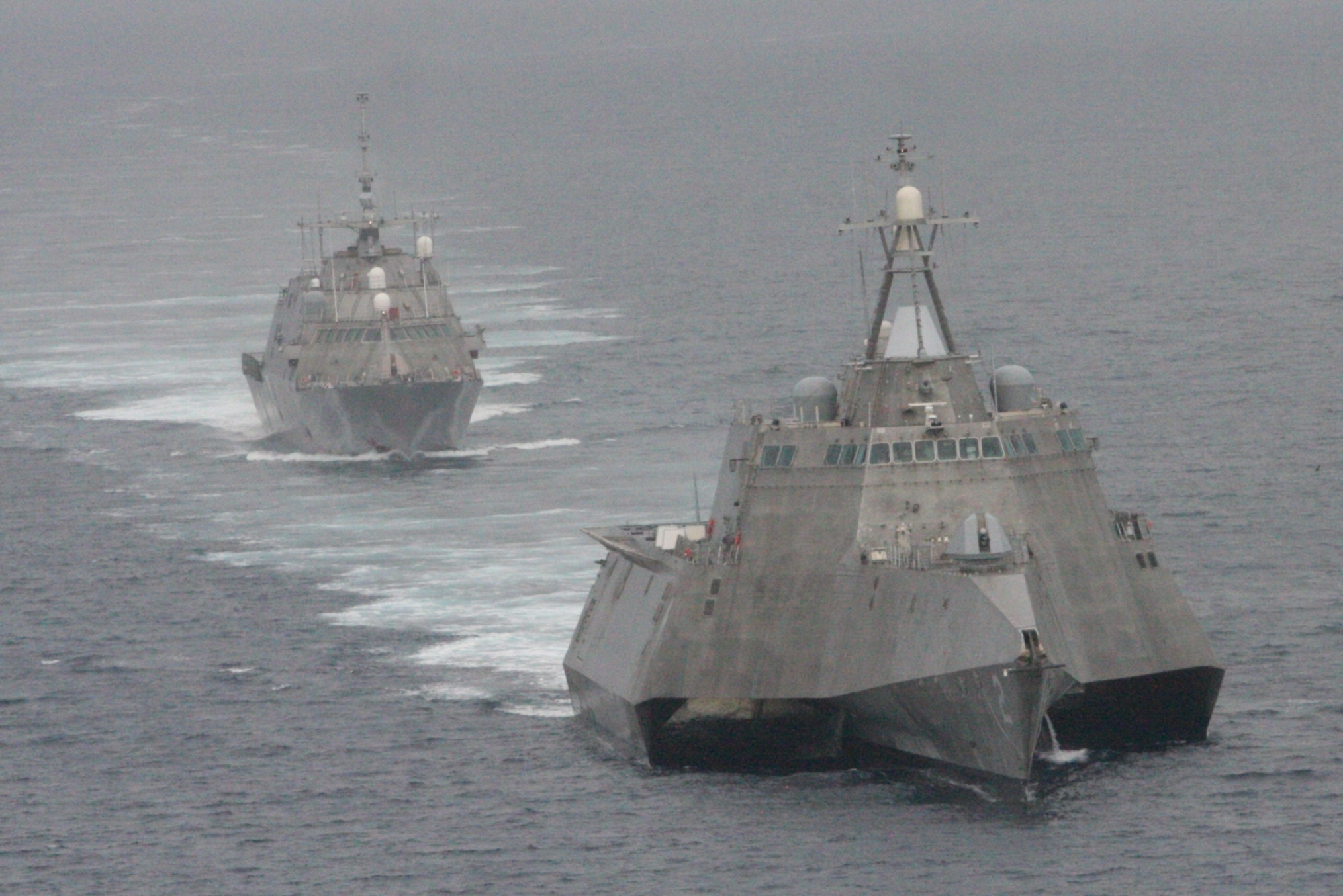 SAN DIEGO (May 2, 2012) The first of class littoral combat ships USS Freedom (LCS 1), rear, and USS Independence (LCS 2) maneuver together during an exercise off the coast of Southern California. The littoral combat ship is a fast, agile, networked surface combatant designed to operate in the near-shore environment, while capable of open-ocean tasking, and win against 21st-century coastal threats such as submarines, mines, and swarming small craft. (U.S. Navy photo by Lt. Jan Shultis/Released) 120502-N-ZZ999-019 Join the conversation navylive.dodlive.mil